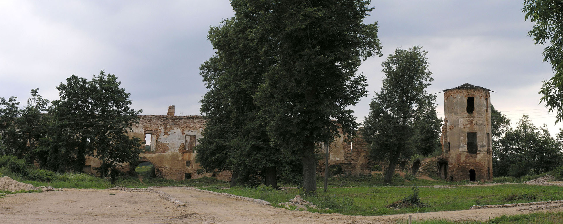 Halshany Castle in Hrodna Oblast, Belarus